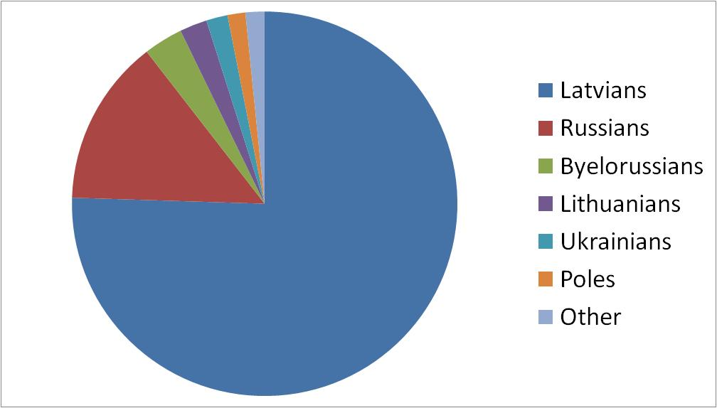 Proportional distribution of different ethnicities in Dobele, according to English and Russian language Wikipedia. The original data source is unknown. However, the creator had no reason to question the data's authenticity.